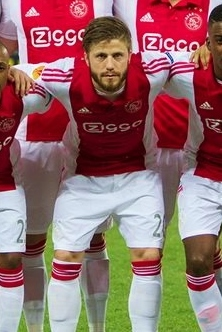 Lasse Schöne cropped.